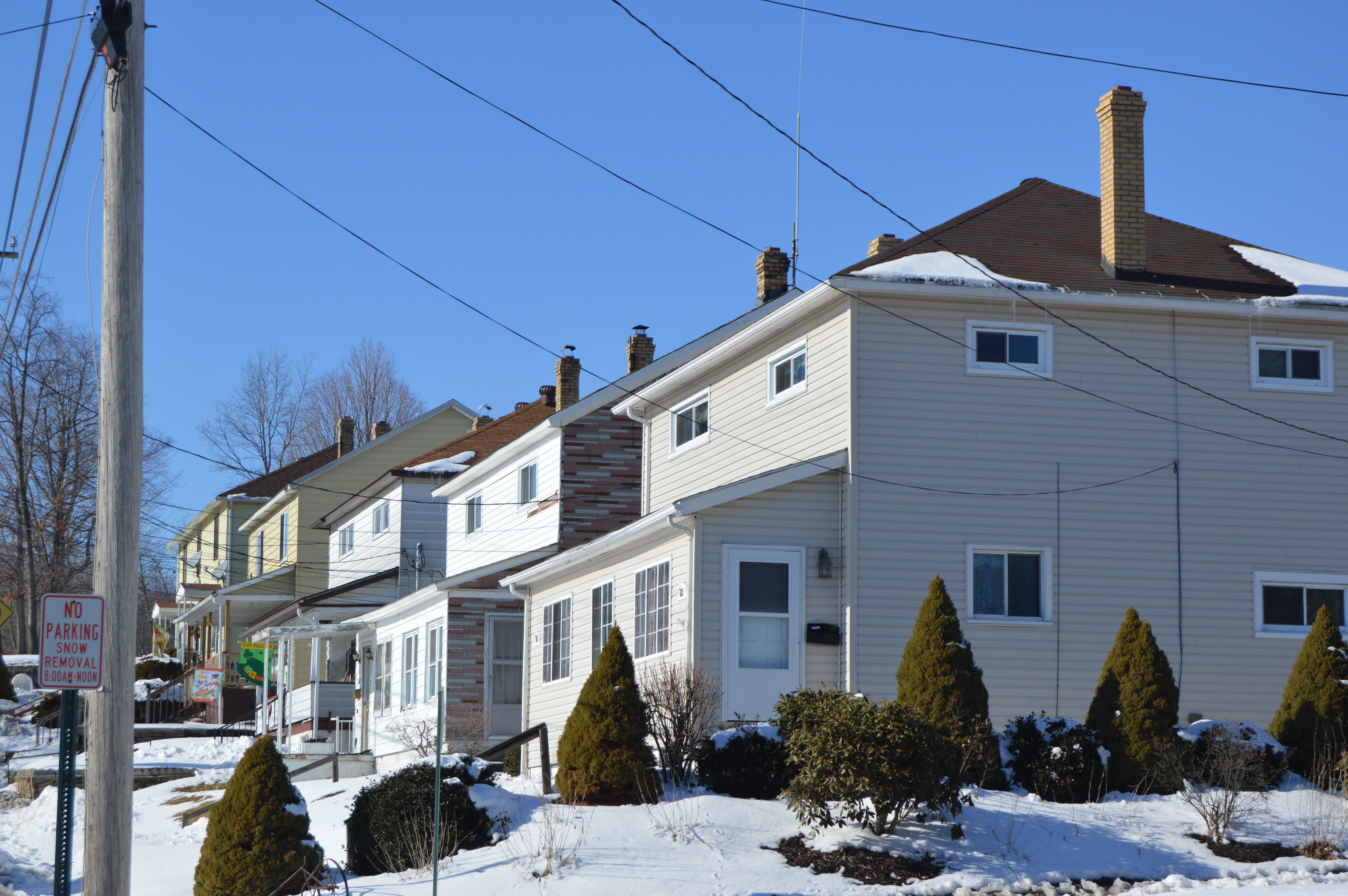 Houses on the northeastern side of Somerset Street at the Orange Street intersection in Scalp Level, Pennsylvania, United States. This section of Somerset is part of the Windber Historic District, a historic district that is listed on the National Register of Historic Places.